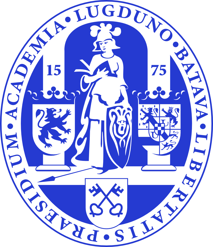 Leiden University Seal